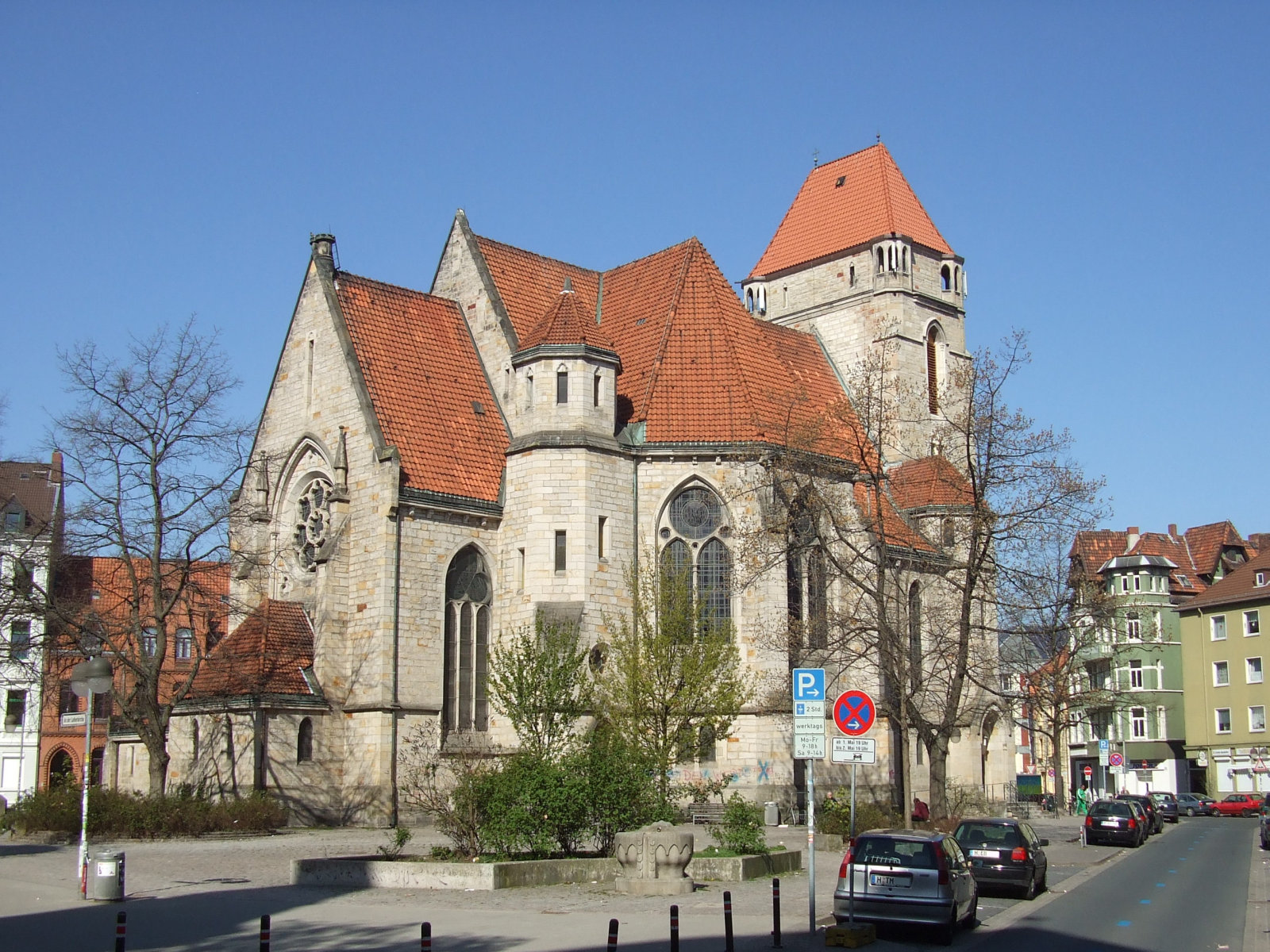 Lutherkirche from south-east corner.